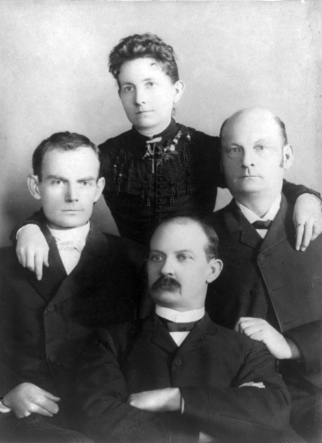 Sitting left-to-right: Bob Younger, Cole Younger, Jim Younger, members of the James–Younger Gang. Standing: Henrietta Younger.